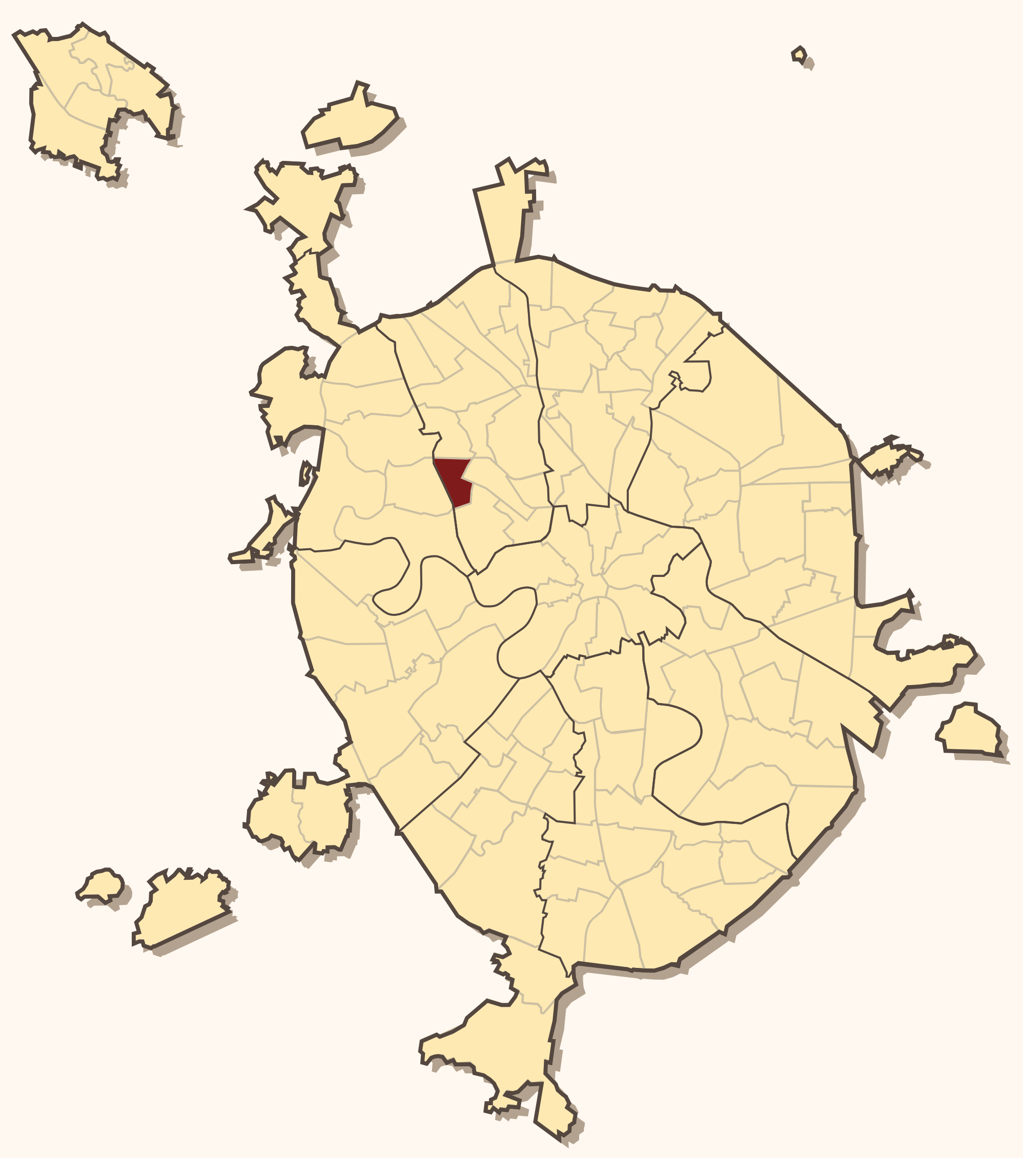 Moscow districts map